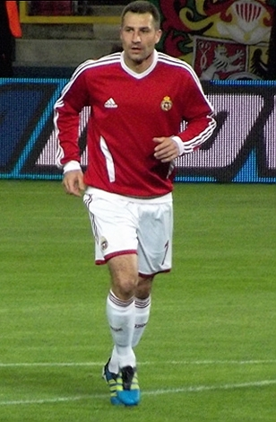 Radosław Sobolewski